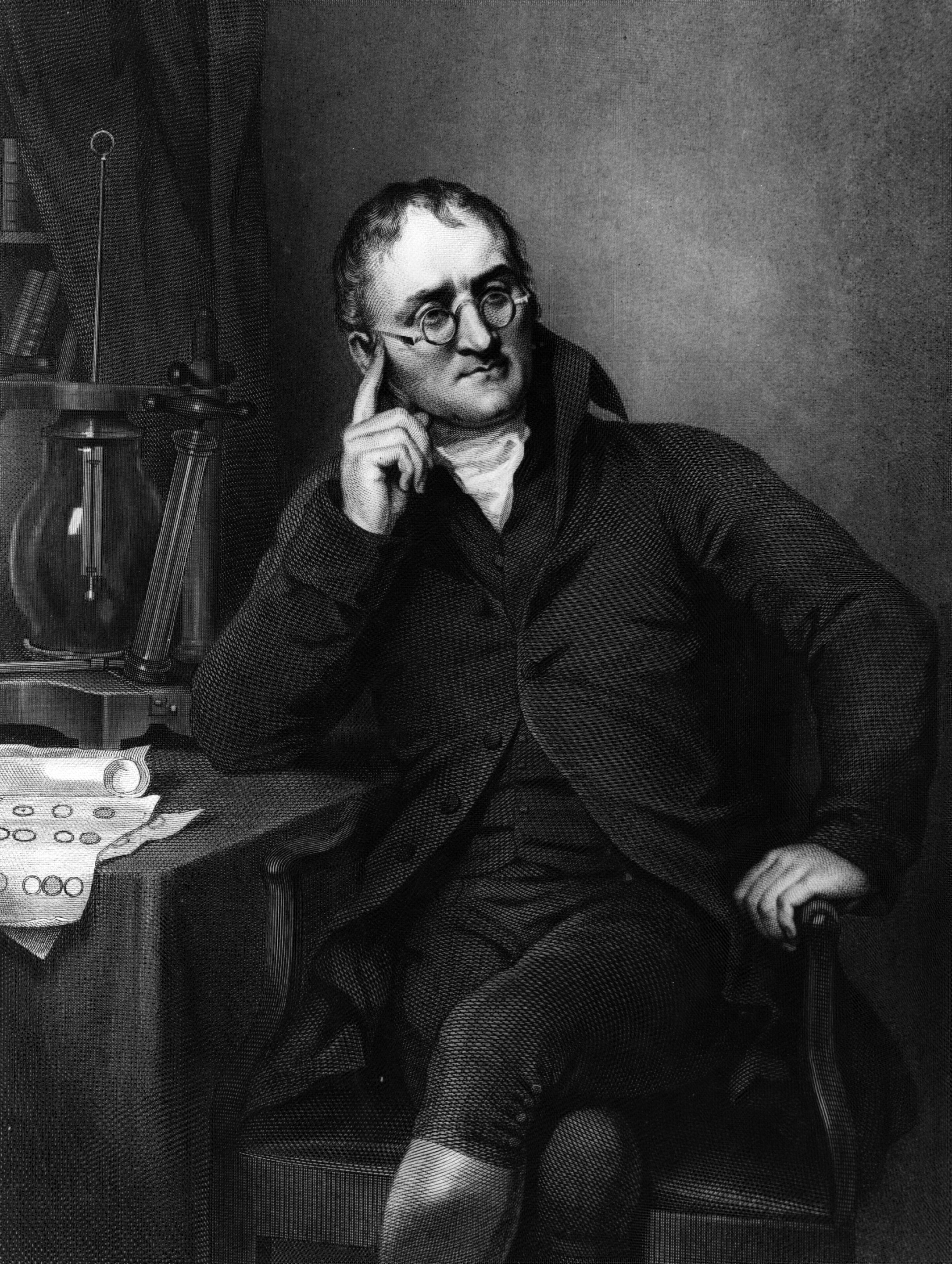 Engraving of a painting of John Dalton